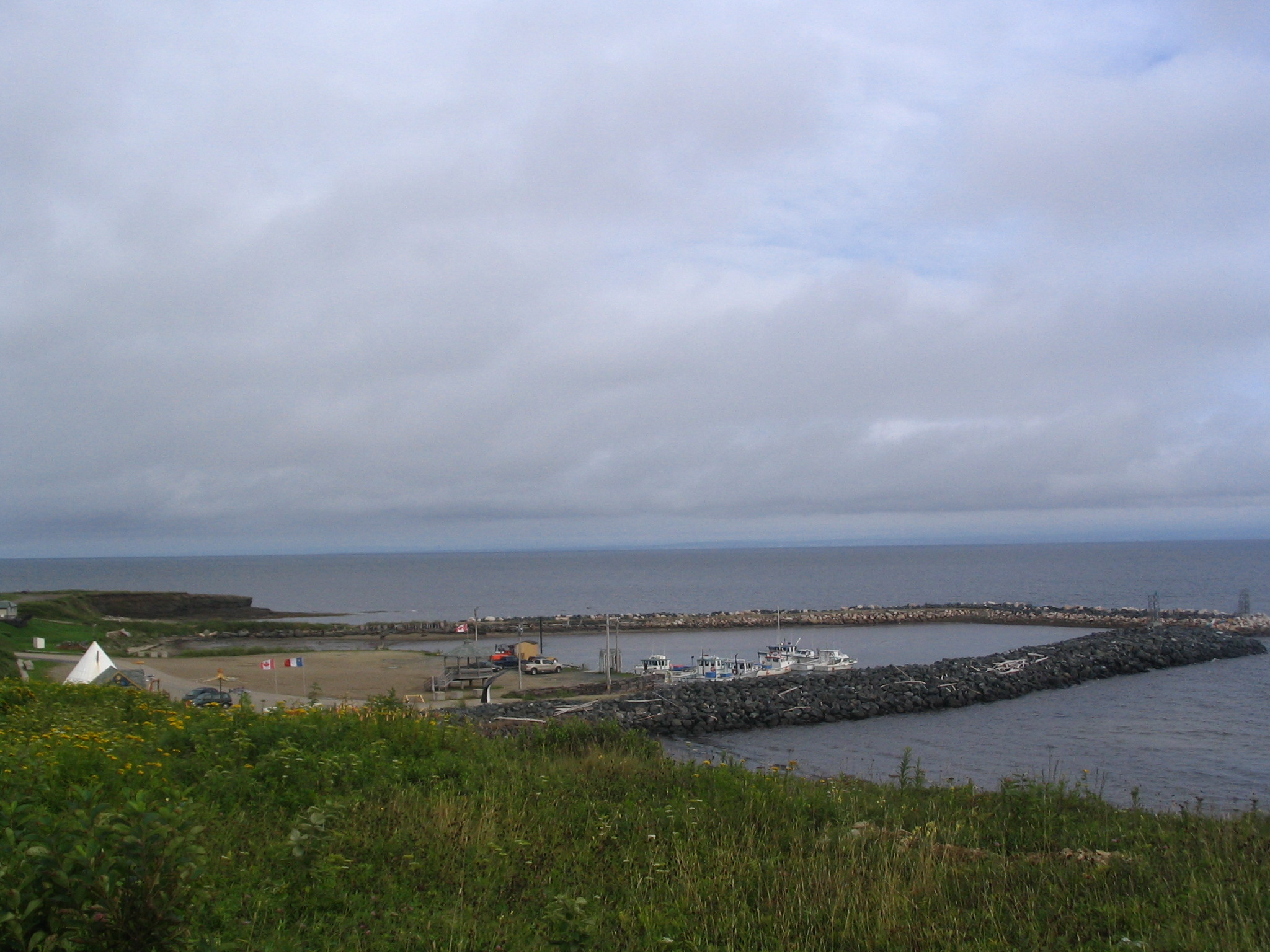 The fishing port of Grande-Anse, New Brunswick, Canada.